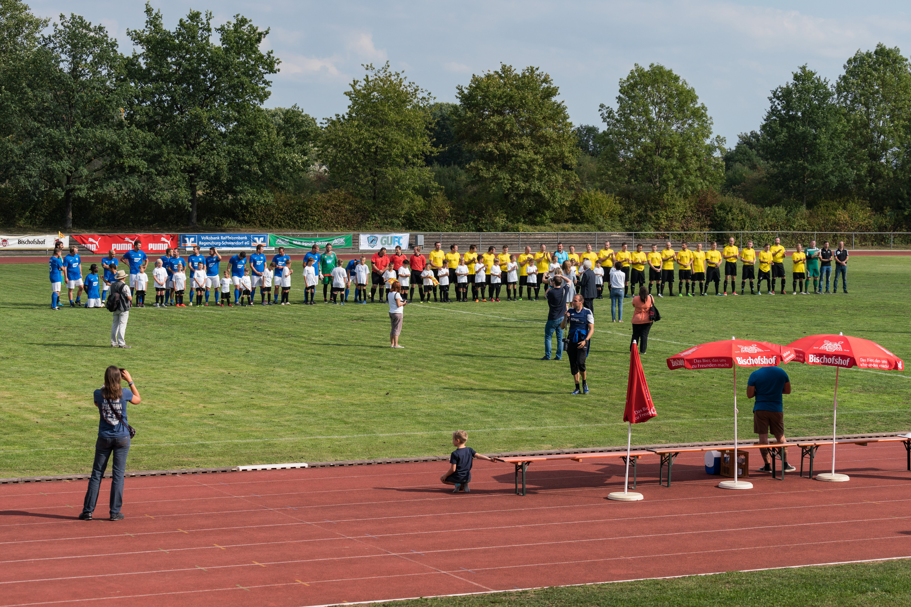 Charity match of the Global United FC vs. "Team Schwandorf"